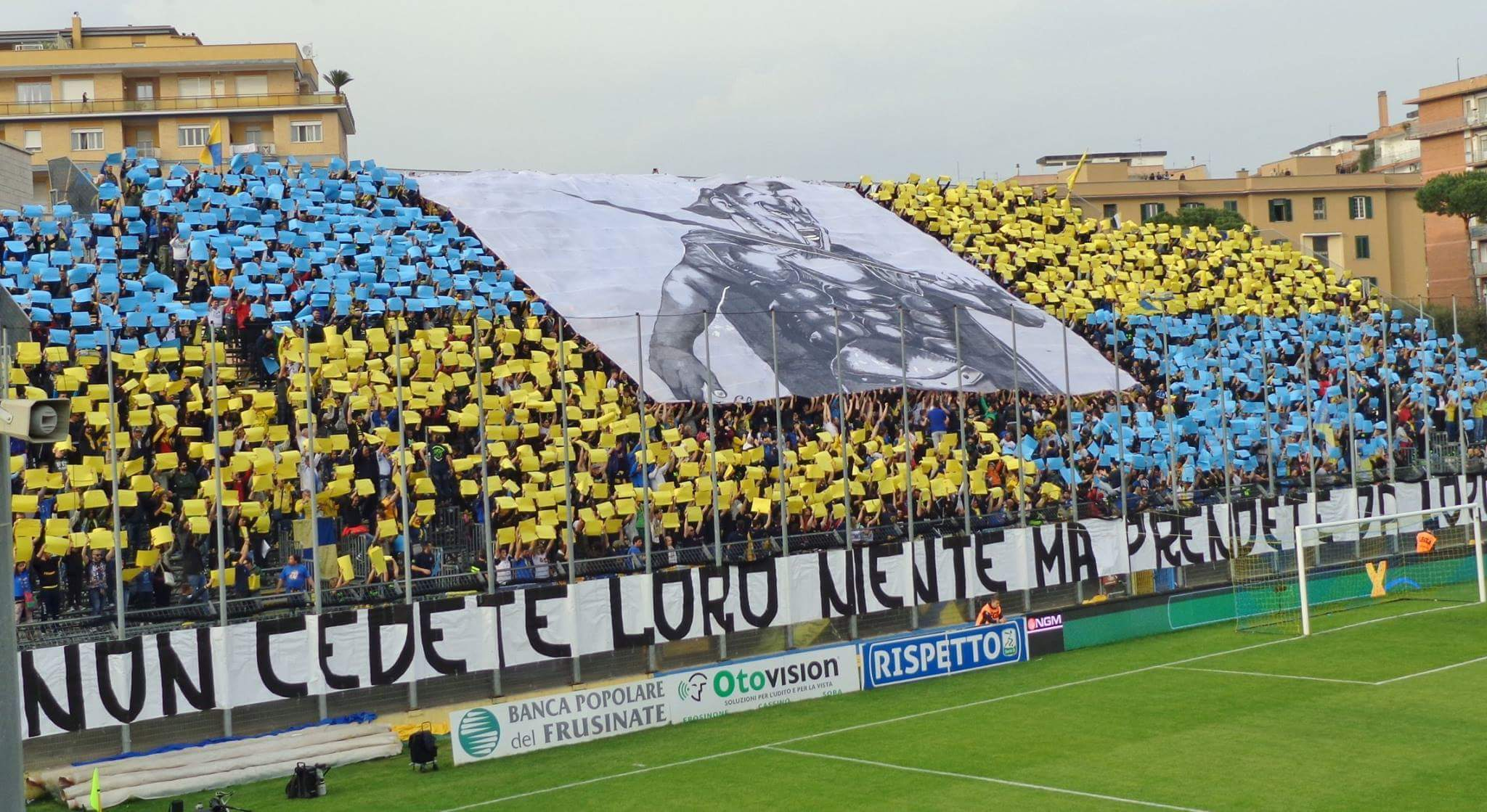 Matusa Stadium: the North Stand (Frosinone-Latina 1-0, 14/4/2015)